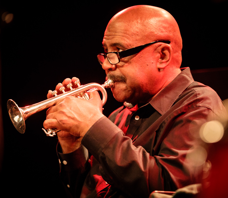 Hugh Ragin with Art Ensemble of Chicago at the stage of Energimølla. The concert was part of Kongsberg Jazzfestival and took place on 07. July 2017. Lineup: Roscoe Mitchell (saxophone) Hugh Ragin (trumpet) Jaribu Shahid (double bass) Don Moye (drums)